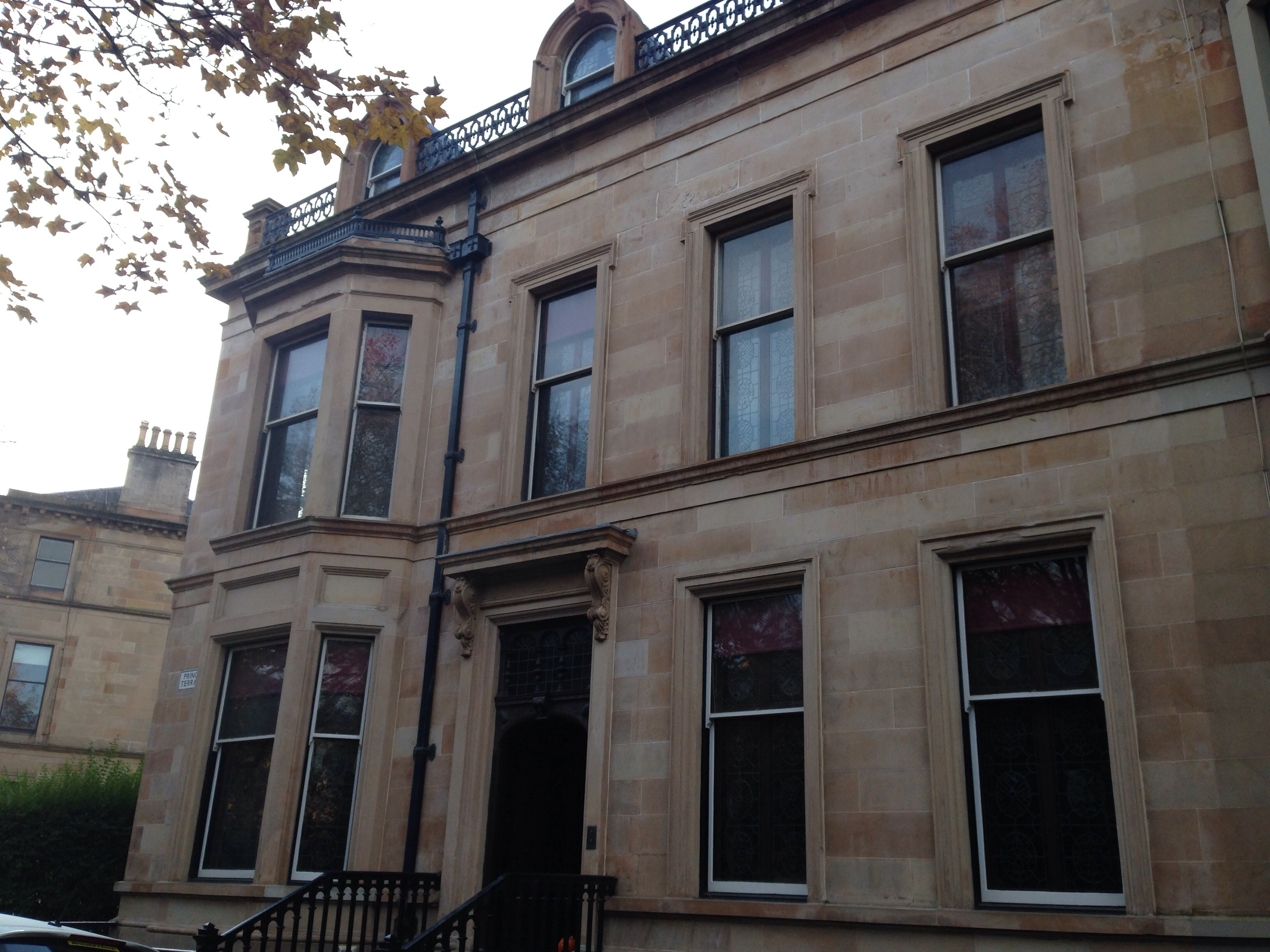 The Category A listed LB32576 1 PRINCES TERRACE, PRINCE ALBERT ROAD, WITH GATEPIERS AND RAILINGS TO PRINCES TERRACE LANE.